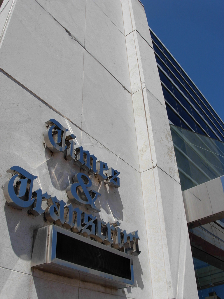 I Stu_pendousmat took this photo in the summer of 2007